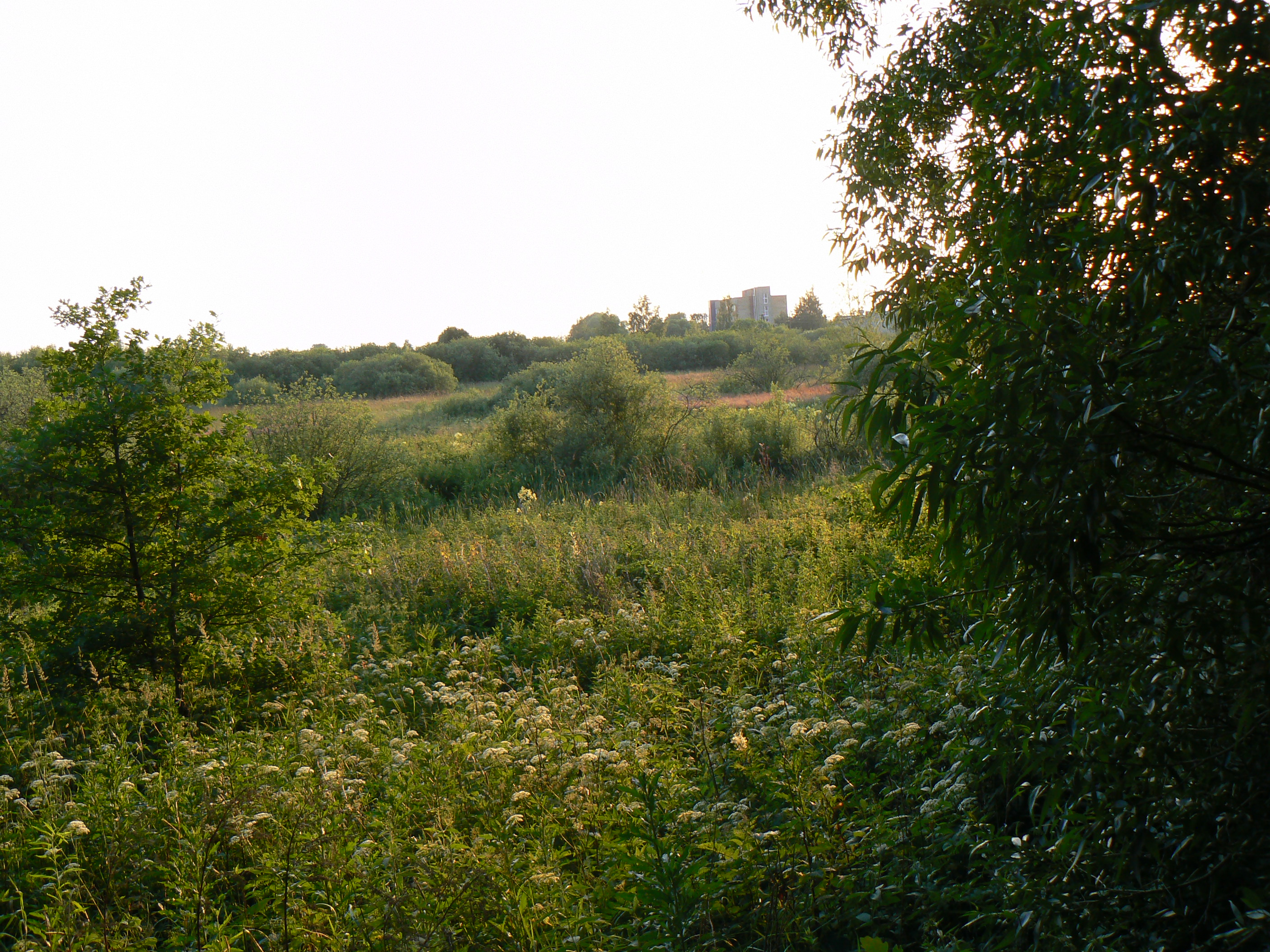 View to Draugystės Station from Laistų piliakalnis Česky: Pohled na budovu rozřazovacího nádraží Draugystė z Hradiště Laistų piliakalnis. Mezi nádražím a hradištěm jsou bažiny.